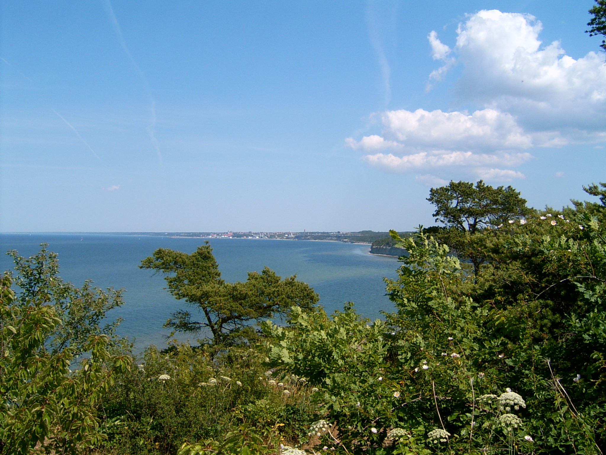 Photo of Visby in Sweden from Högklint.